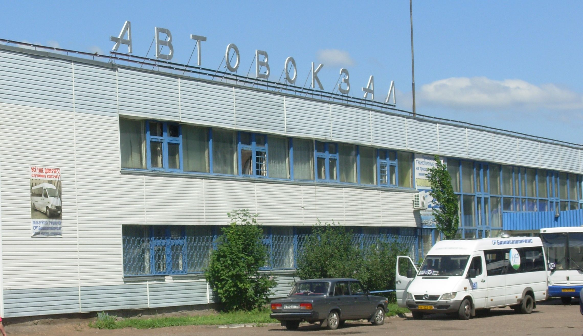 town Salavat